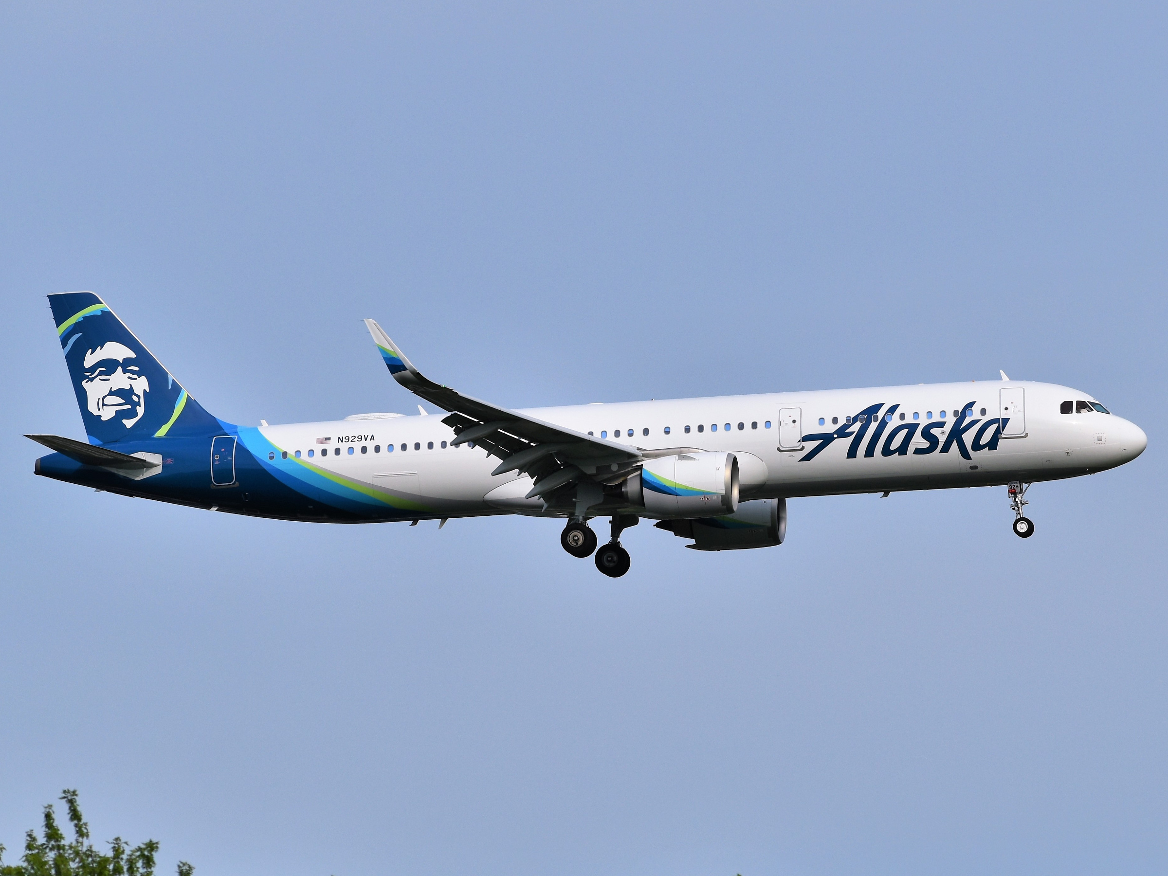 An Alaska Airlines Airbus A321neo is on final approach to John F. Kennedy International Airport, wearing a special "More to Love" special livery